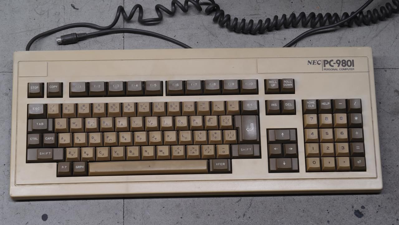 NEC PC-9801 computer's keyboard.